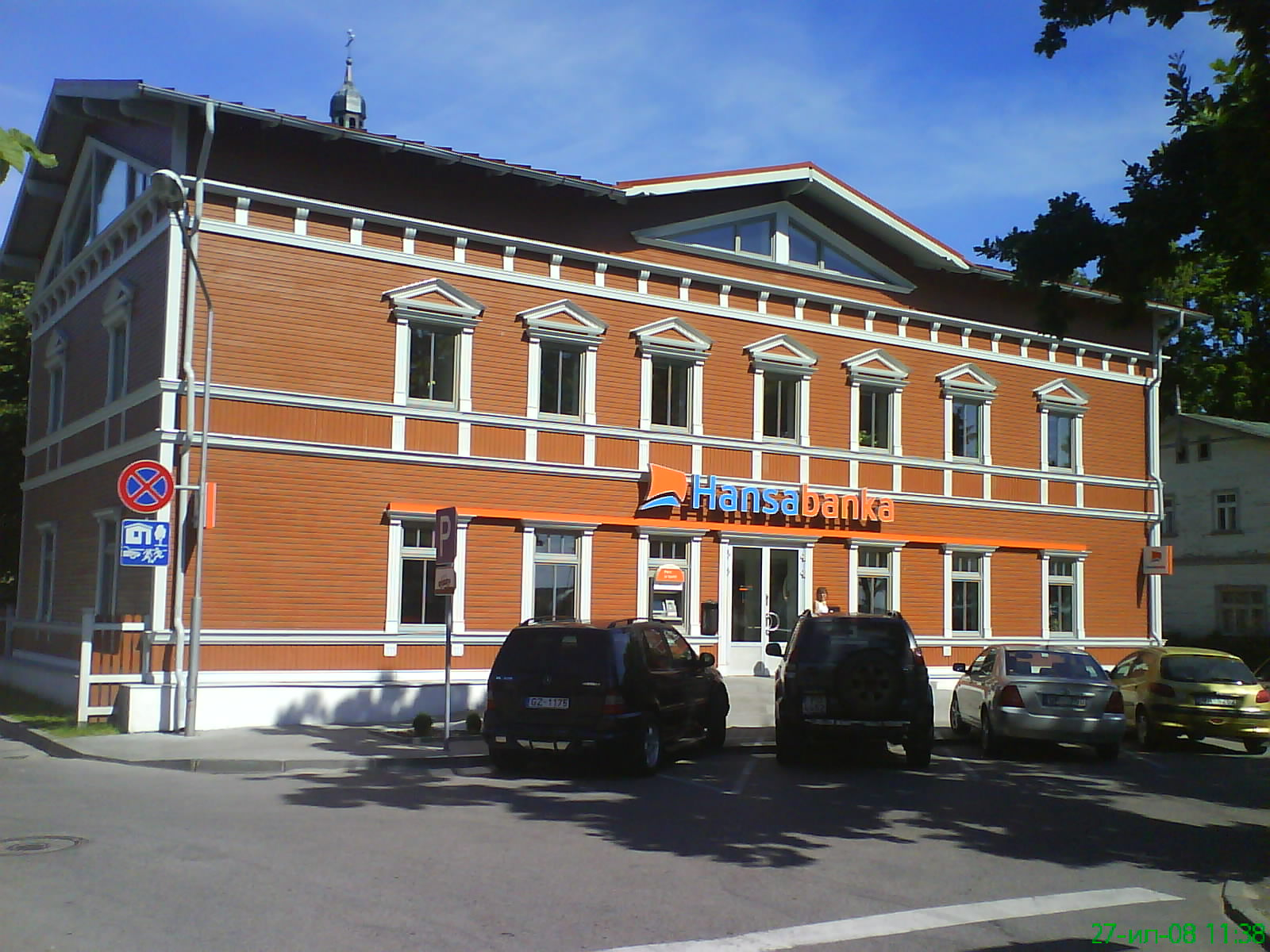 Hansabanka branch, Jūrmala, Latvia